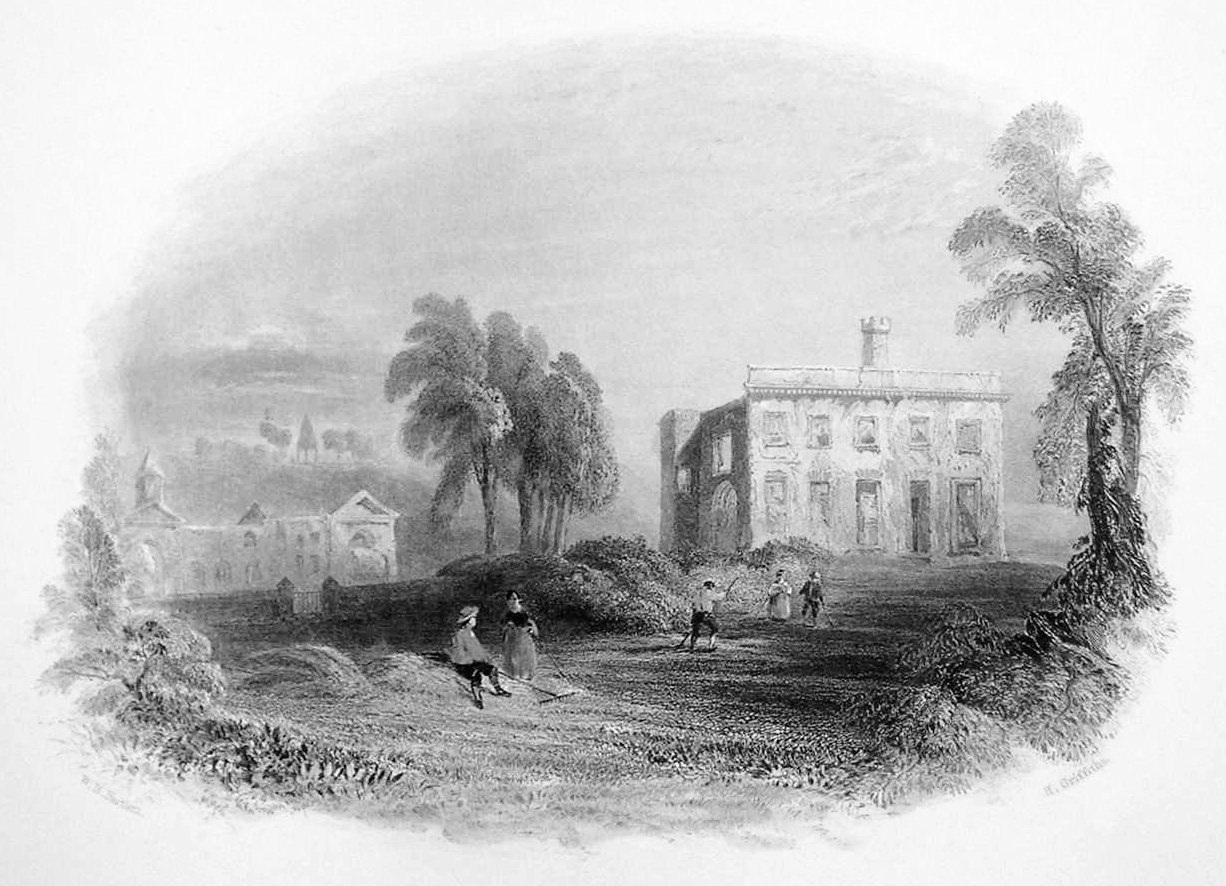 Dangan Castle, engr. by H. Griffiths from drawing by Bartlett, W. H. (William Henry), 1809-1854.